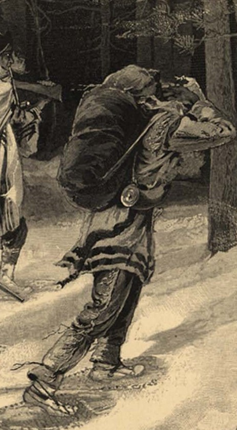 A messenger in the winter time in New France. Pedro da Silva was one of such early mail carriers (couriers) in New France.